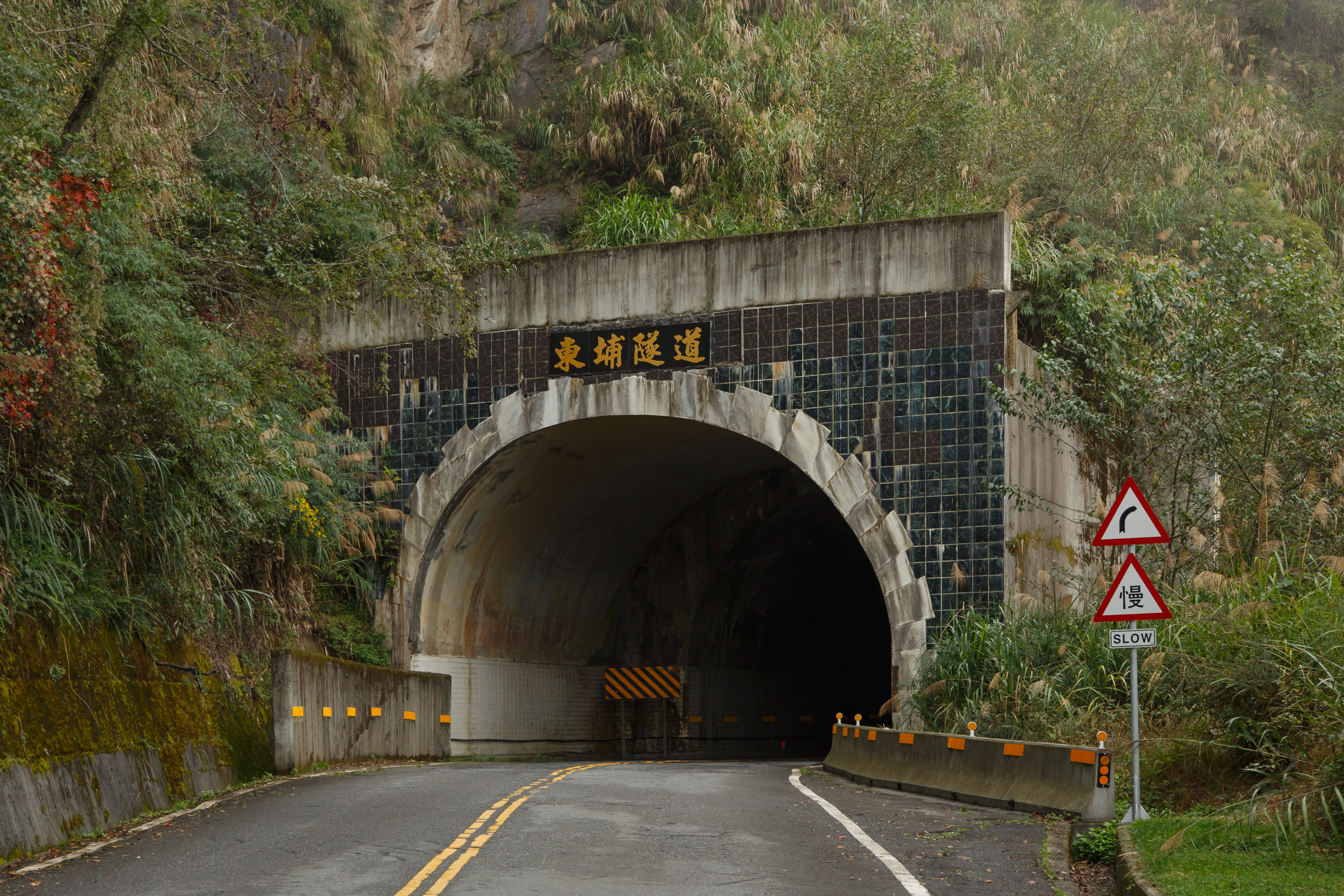 Nantou County, Taiwan: Highway No.21 passing through a tunnel in the Dongpushan of Alishan Range, the tunnel carved with traditional chinese words "東埔隧道"("Dong Pu Suei Dao").